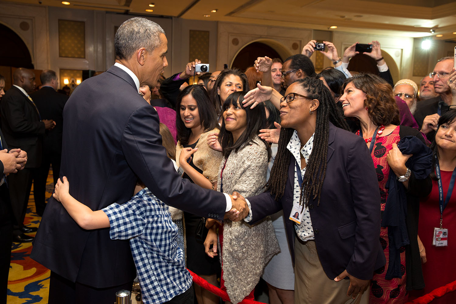 A young boy hugs President Barack Obama as he greets U.S. Embassy personnel and their families in New Delhi, India, Jan. 25, 2015. (Official White House Photo by Pete Souza)